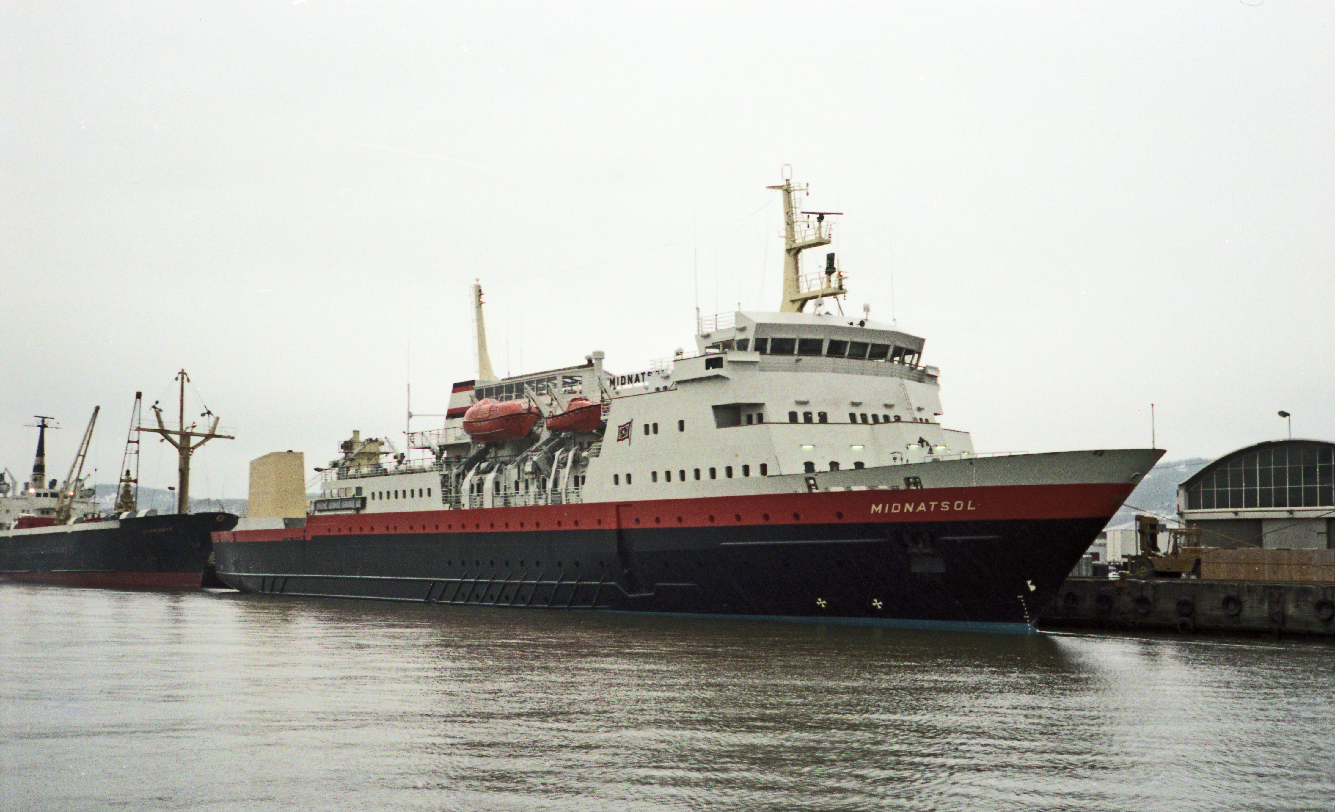 Format: 35 mm farge negativ Film: Agfacolor 100 Dato / Date: 22. april 1983 Fotograf / Photographer: Ukjent Sted / Place: Trondheim Wikipedia: MS "Lyngen" Wikipedia: MS "Midnatsol Wikipedia: Hurtigruten Lenke / Link: Edro III (MS Sunnmøre) Lenke / Link: National Geographic Explorer (MS Midnatsol) Lenke / Link: National Geographic Explorer Google Maps: bit.ly/JjtMI9 Flyfoto 1937: bit.ly/I9ovQ6 Street View: bit.ly/JJPceh Eier / Owner Institution: Trondheim byarkiv, The Municipal Archives of Trondheim Arkivreferanse / Archive reference: Tor.H43.P1.F6146, film 44 Merknad: Fra Byantikvarens negativsamling.